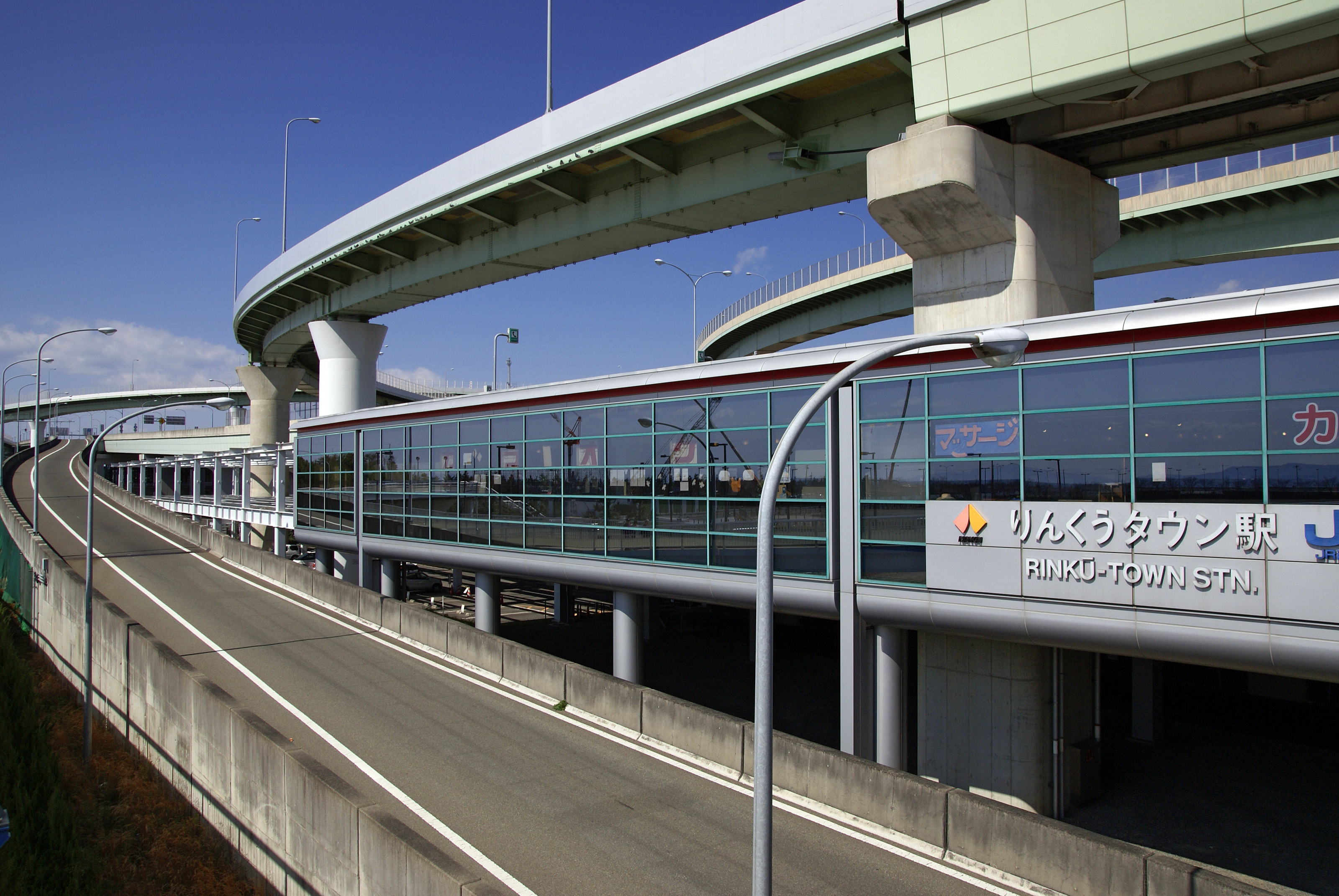 Rinku-town Station in Izumisano, Osaka prefecture, Japan